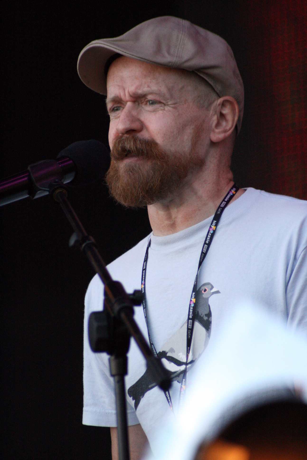 Alexander Bard, koncert "Hity na czasie” - próba generalna. The Tall Ships' Races, Szczecin 2007